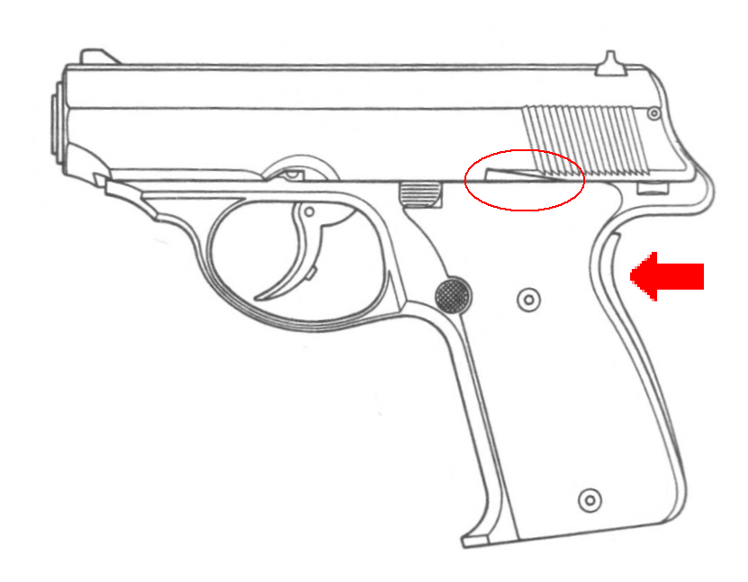 A schematic of the "Thomas .45acp", product of A.J. Ordnance, from 1978. The "Thomas .45acp" is a kind of unique Delayed blowback pistol which first and probably the last.